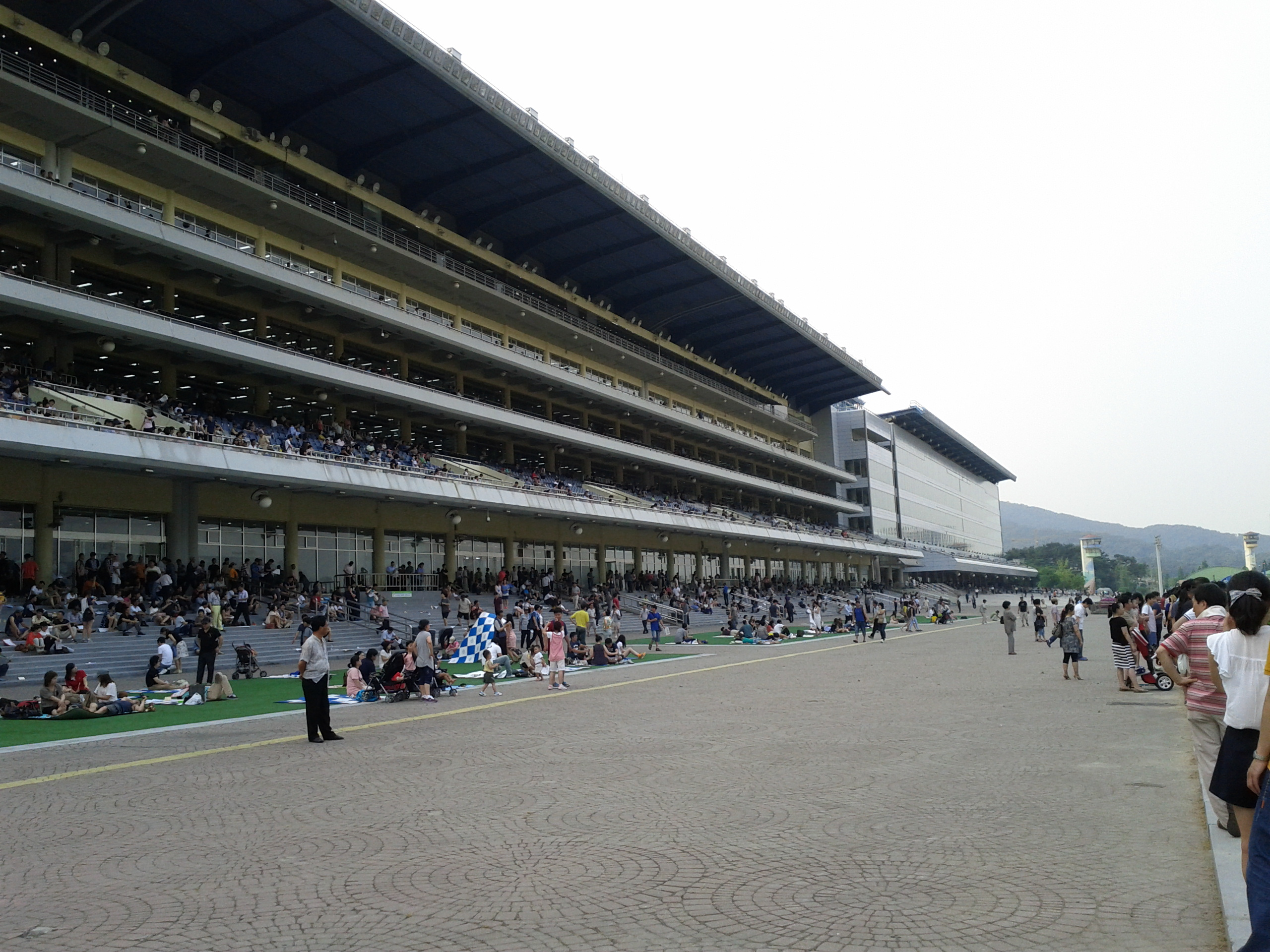 Seoul racecourse's main stand. photo is taken by near winning post